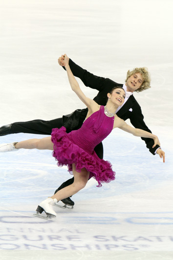 Meryl Davis and Charlie White at the the 2010 World Championships. Compulsory dances - Golden Waltz